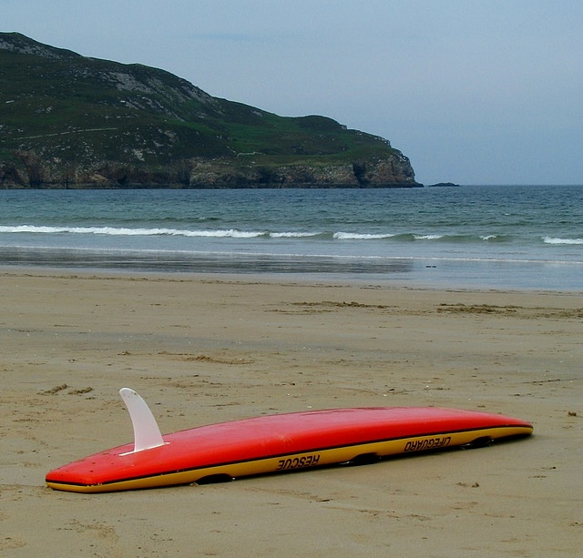 Rescue surfboard, Killahoey Strand Note – the Google maps here are useless. Please refer to OSI Discovery Series Sheet 2 from which all accurate grid references have been made. Lifeguard surfboard on the beach at Killahoey Strand. for some related images. Hornhead headland is in the distance beyond.